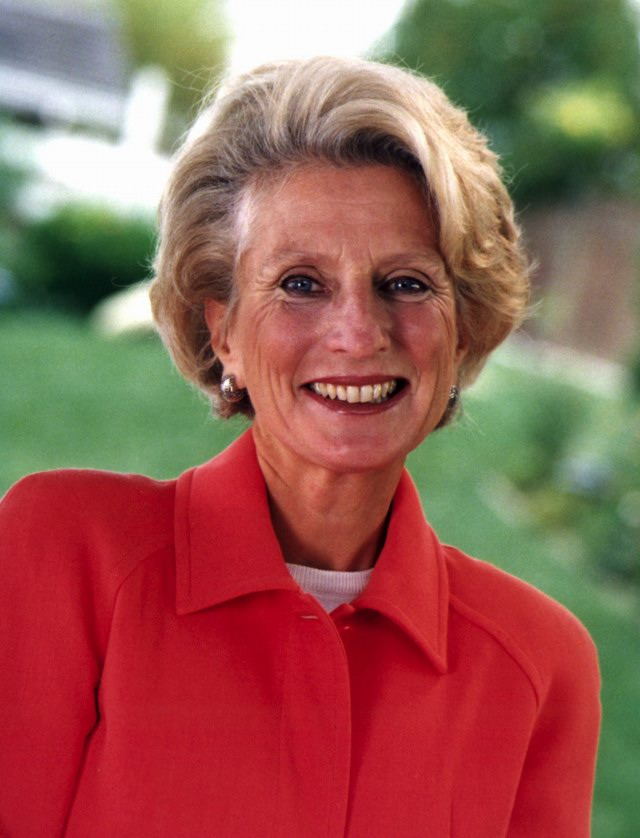 Jane Harman, member of the United States House of Representatives.